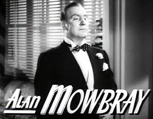 Cropped screenshot of Alan Mowbray from the trailer for the film We Were Dancing